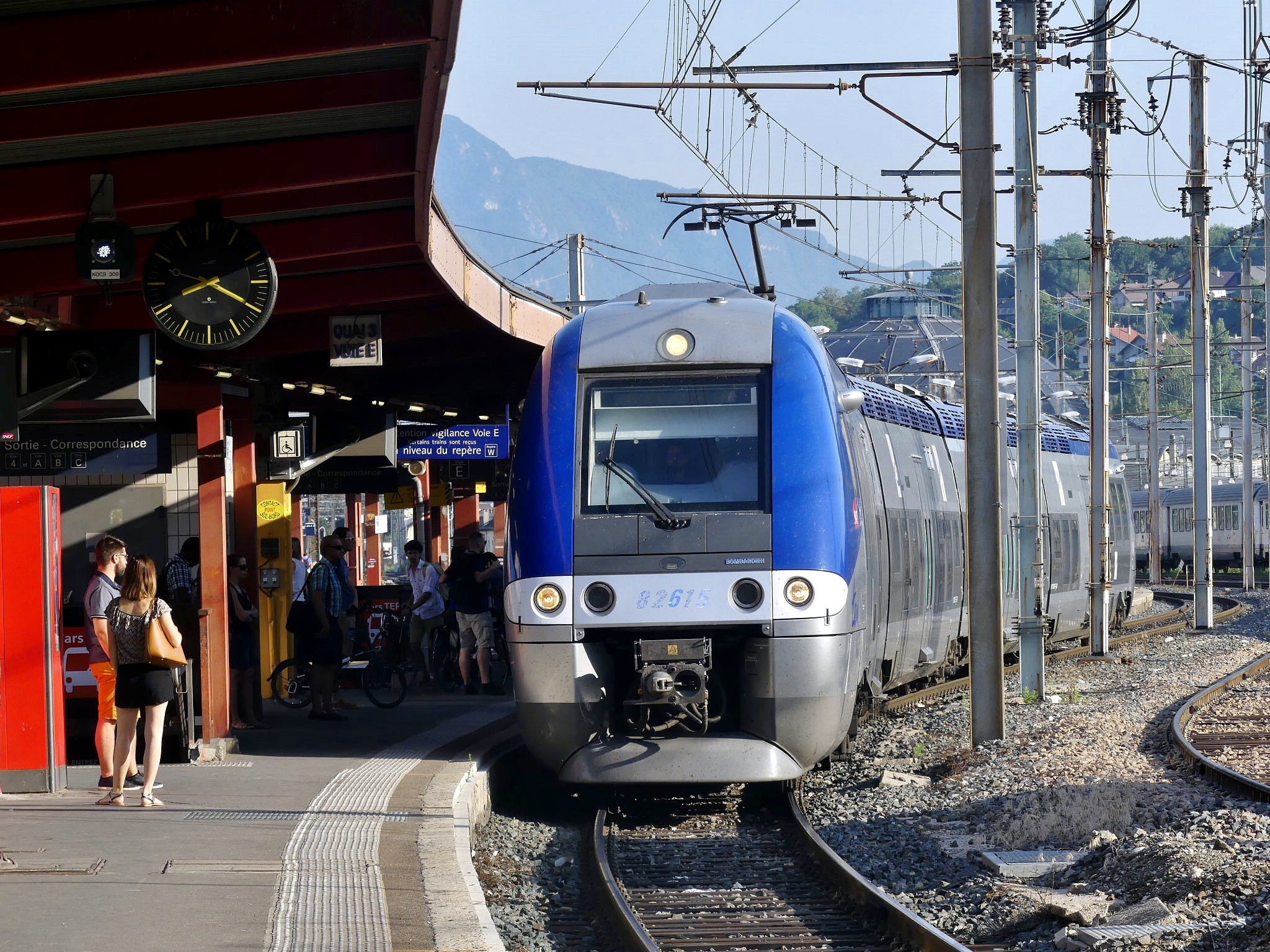 Sight of the French regional morning train n° 96630 from Geneva (Switzerland) to Grenoble (Isère) arriving at Chambéry railway station, in Savoie.